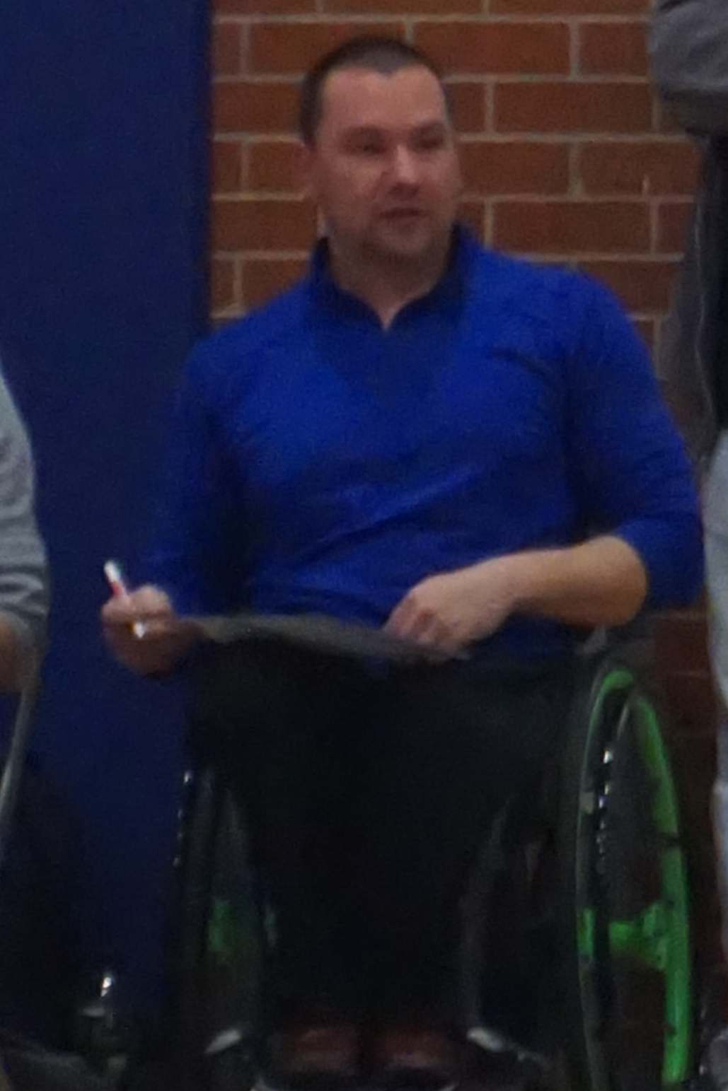 UT Arlington head coach Jason Nelms during the Arizona Wildcats vs. UT Arlington Mavericks women's wheelchair basketball game at the Physical Education Building on the campus of the University of Texas at Arlington in Arlington, Texas (United States). UT Arlington won 64–45.